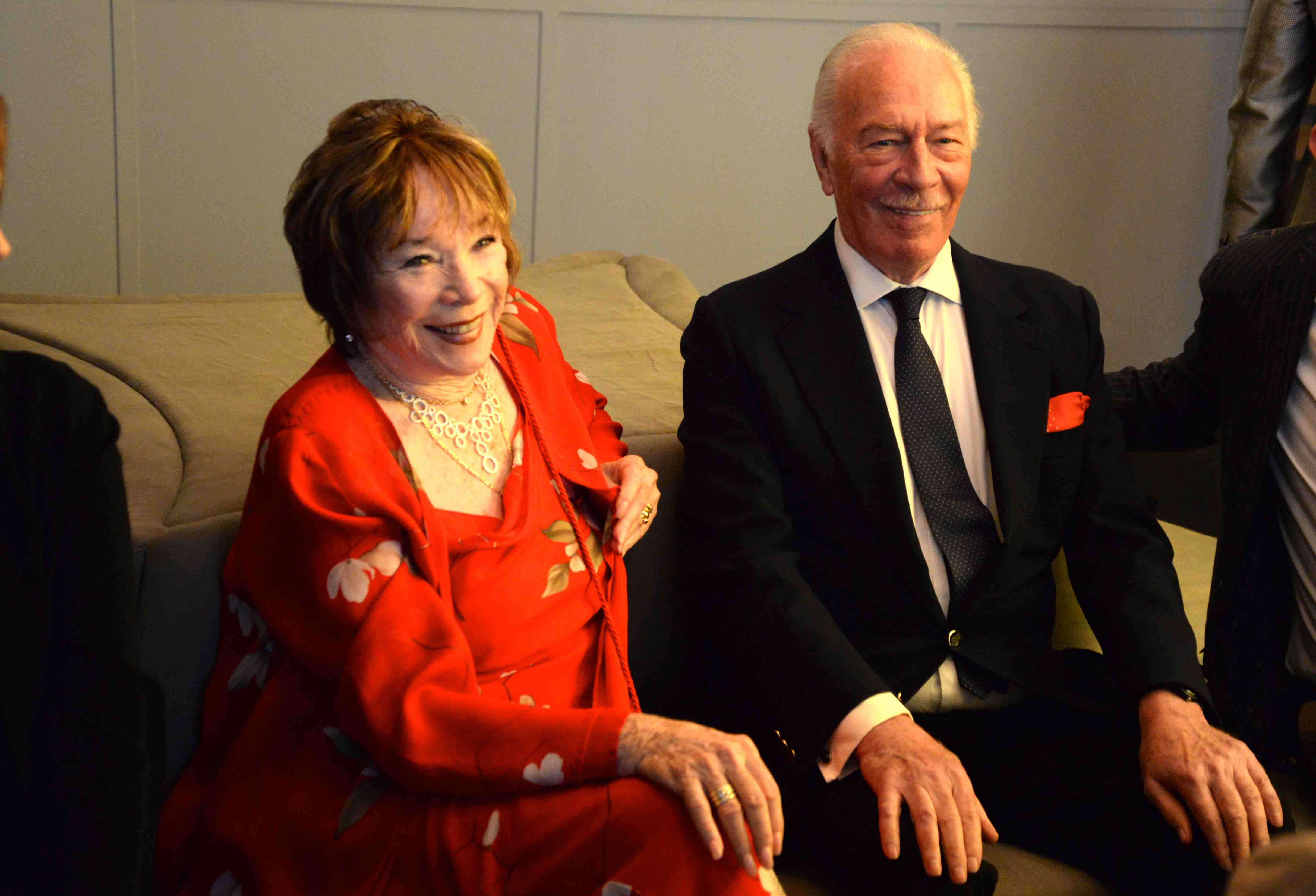 Shirley MacLaine and Christopher Plummer at the 2014 Miami International Film Festival premiere of the film "Elsa & Fred" Photo by: Rene Guirola